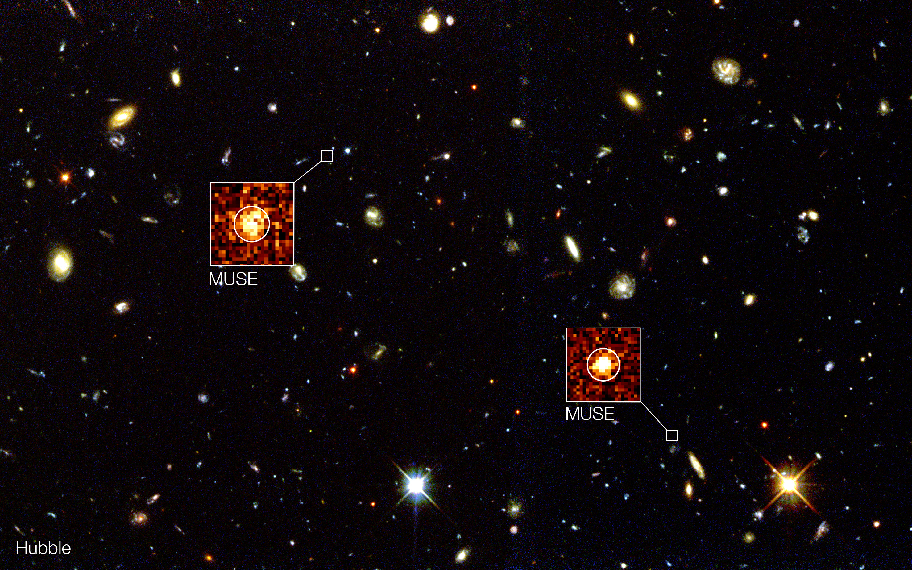 The background image in this composite shows the NASA/ESA Hubble Space Telescope image of the region known as the Hubble Deep Field South. New observations using the MUSE instrument on ESO's Very Large Telescope have detected remote galaxies that are not visible to Hubble. Two examples are highlighted in this composite view. These objects are completely invisible in the Hubble picture but show up strongly in the appropriate parts of the three-dimensional MUSE data.